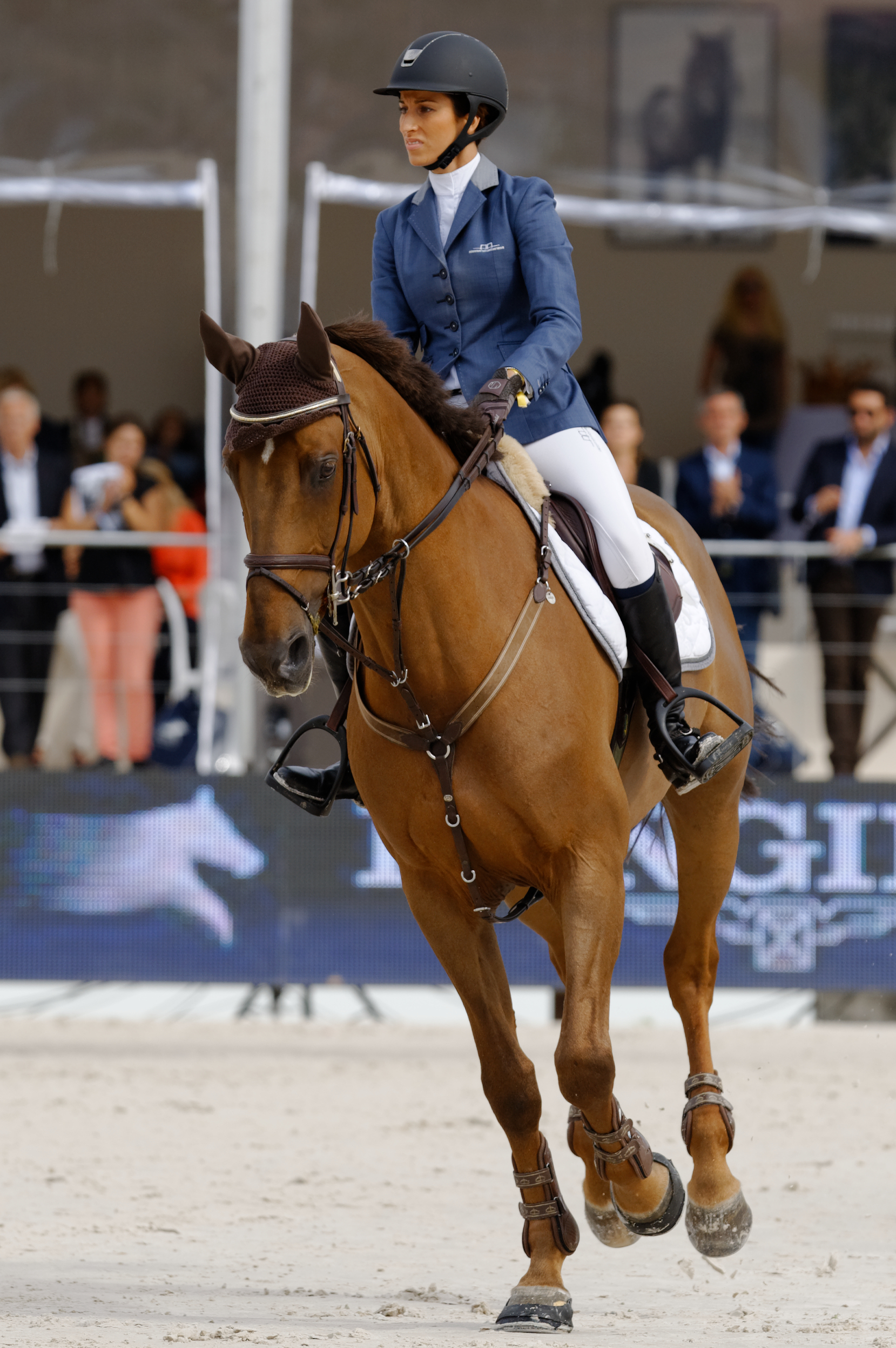 Switzerland's Janika Sprunger rides Aris CMS during the first round of the CSI 5* Longines Global Champions Tour Grand Prix in Paris on 5 July 2014.